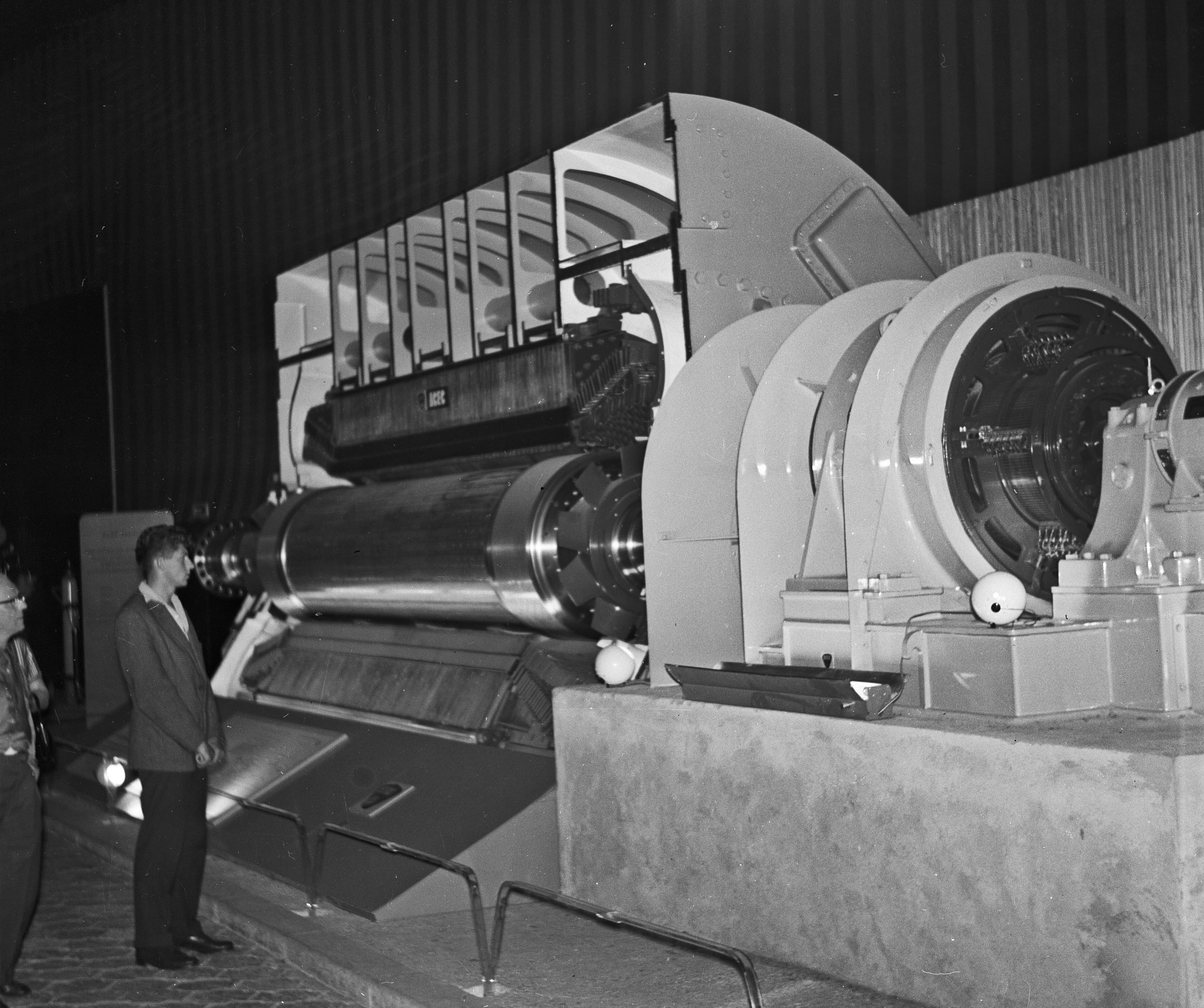 Expo 1958 in the building of the electricity